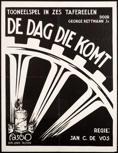 poster the theater show "The Day That Will Come"